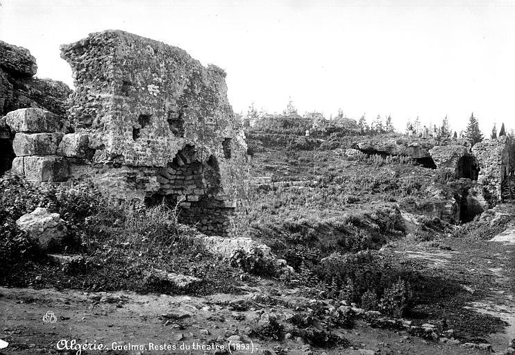 The Ancient Roman theater in Guelma — Algeria. 1893 photogrph by Séraphin-Médéric Mieusement.